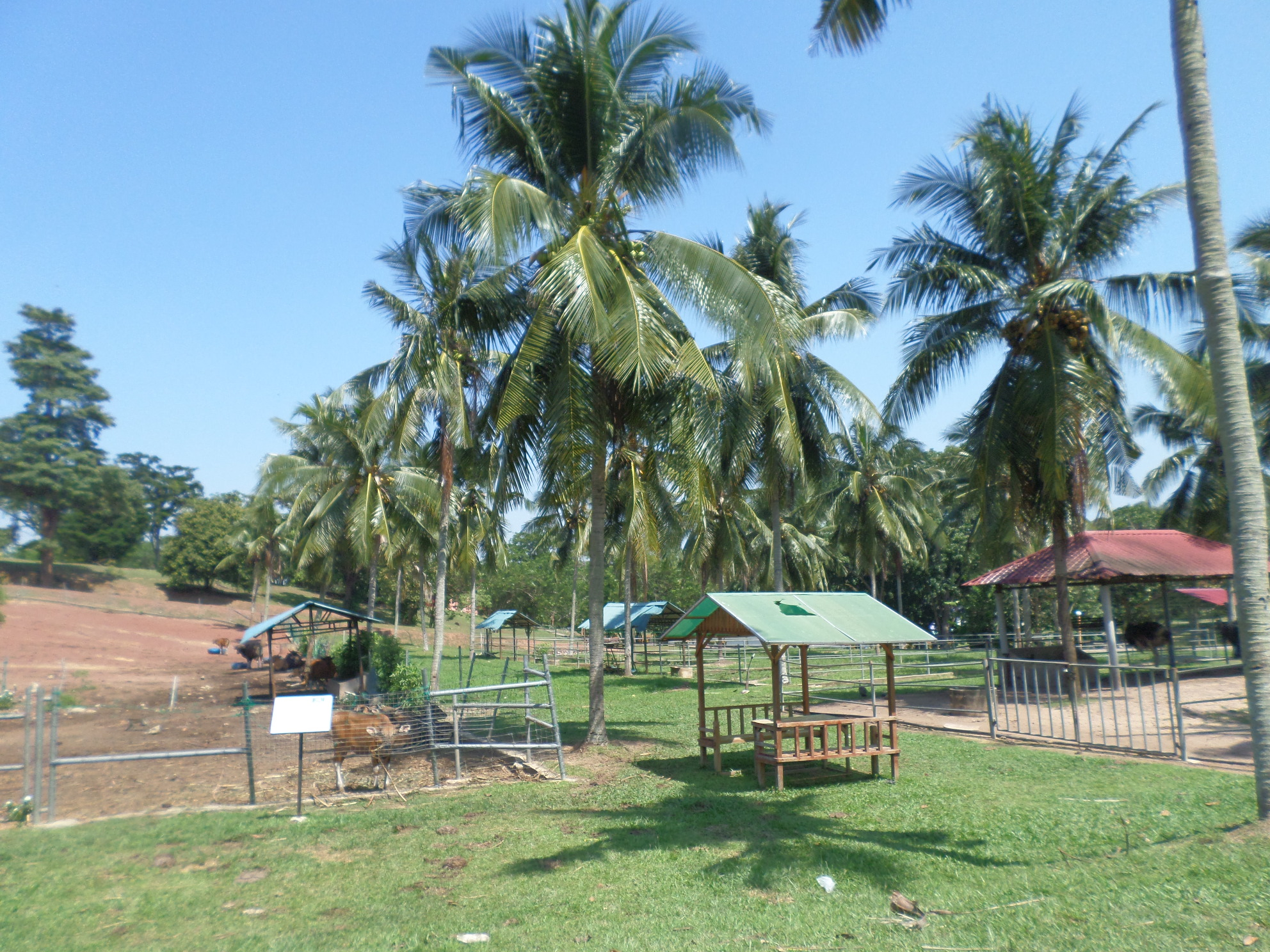 Malacca Tropical Fruit Farm, Sungai Udang, Central Malacca, Malacca, MalaysiaBahasa Melayu: Ladang Buah-Buahan Tropika Melaka, Sungai Udang, Melaka Tengah, Melaka, Malaysia